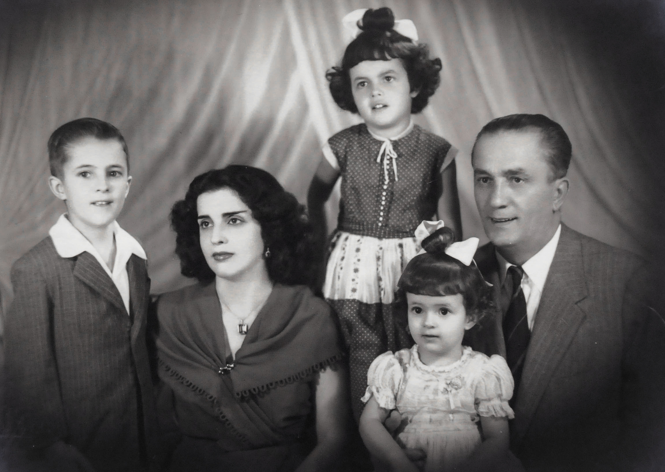 Family of Brazilian president Dilma Rousseff (left to right): Igor (brother), Dilma Jane Silva (mother), Dilma Rousseff (as a child), Zana Lúcia (sister), and Pedro Rousseff (originally Pétar Rusév; her Bulgarian father).